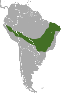 Agile Gracile Mouse Opossum (Gracilinanus agilis) range